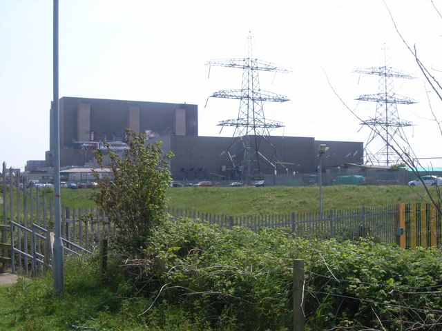 Hartlepool Power Station